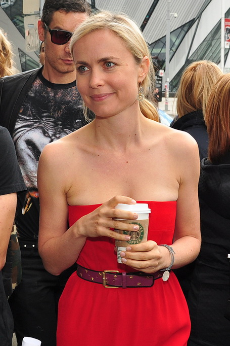 Radha Mitchell at the Toronto International Film Festival